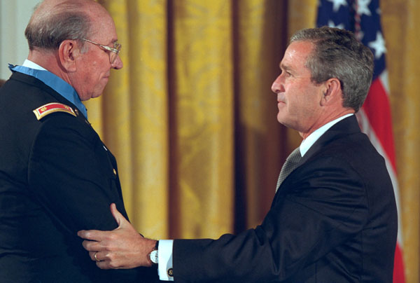 Description: Ed Freeman receives the Medal of Honor on July 16, 2001.